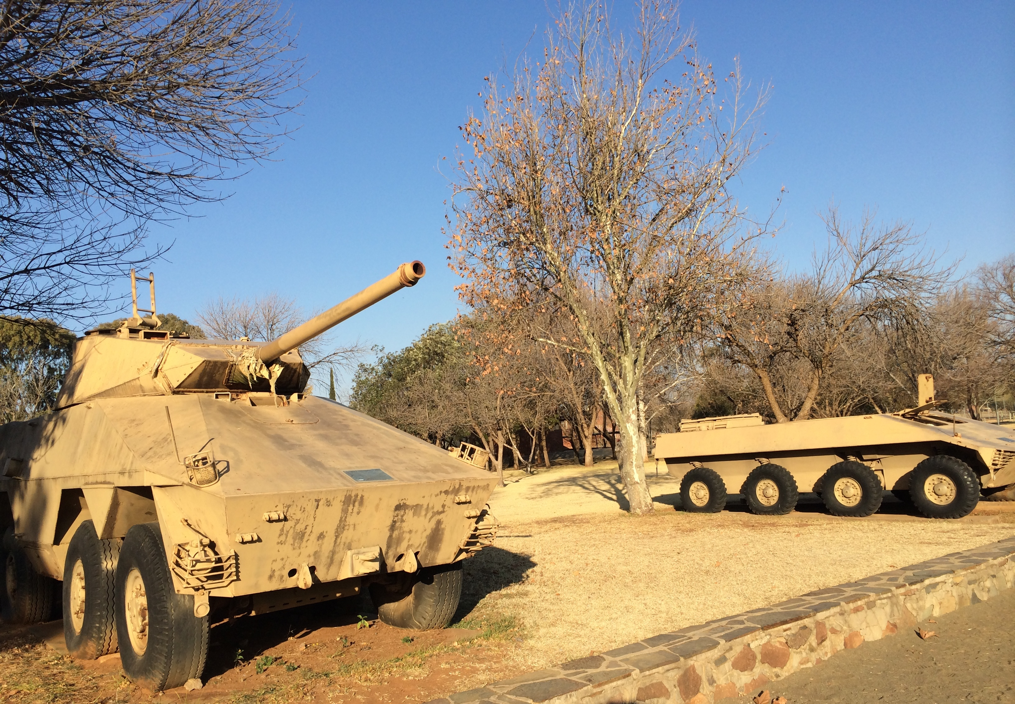 Description: Training ground at 1 Tank Regiment, Tempe Base, Bloemfontein. 2014.